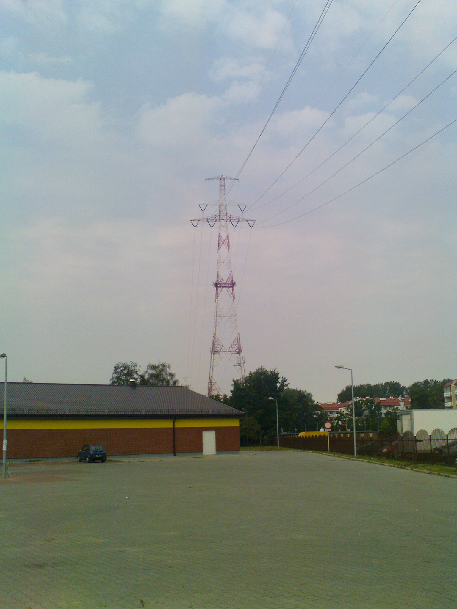 The highest (for 2008) suspension tower in Poland (Nowodwory), 127 m